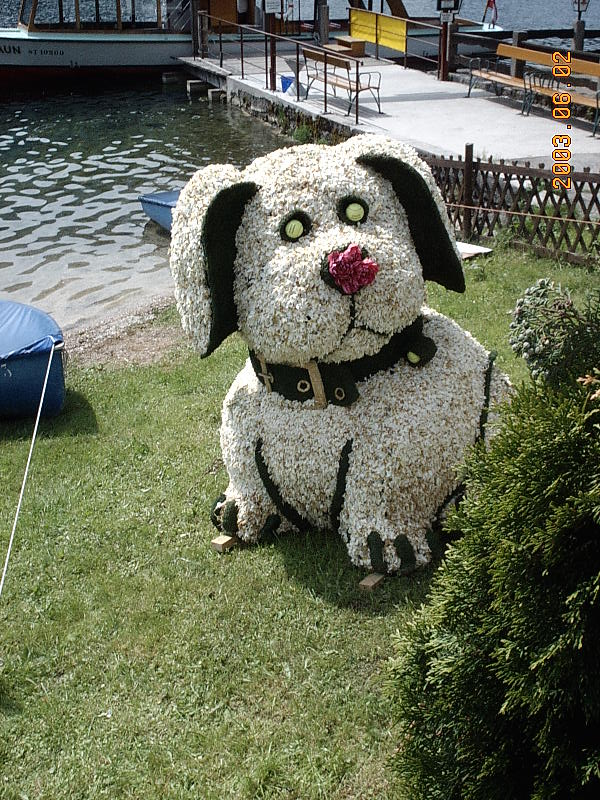 Dogs figure of Narcissus from the Ausseer Narzissenfest